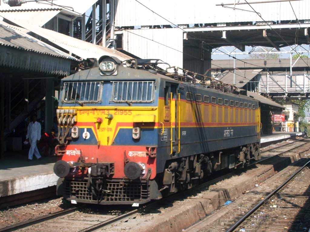 WCAM- 3 locomotive at Kurla . It is Designed by Bharat Heavy Electricals Limited.